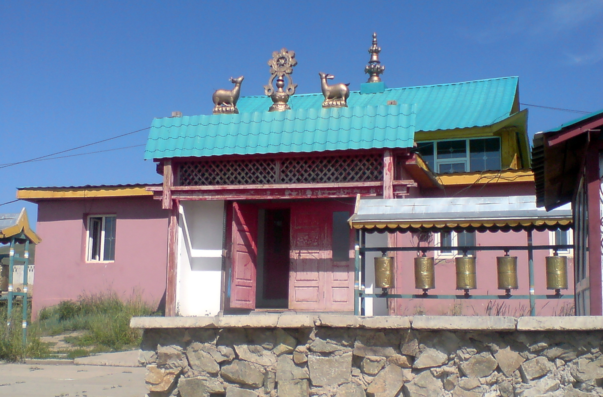 Gandahshaduvlin Temple in Erdenet, Orkhon Aimag, Mongolia